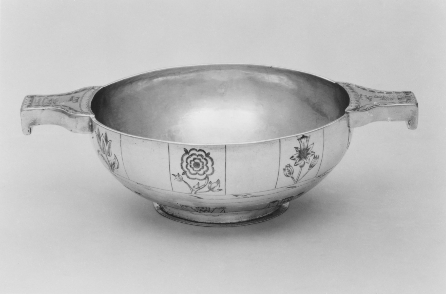 Scottish, Glasgow; Quaich; Metalwork-Silver